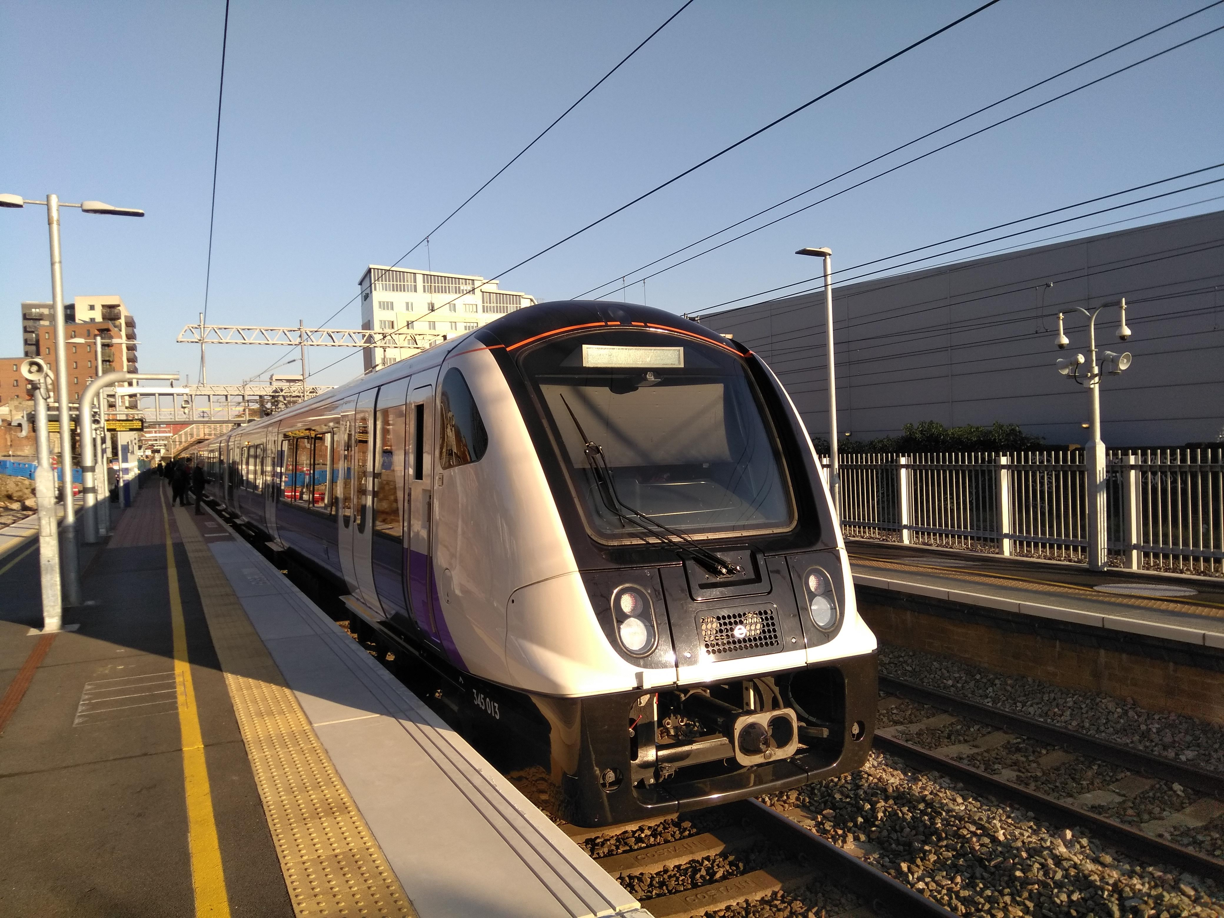 TfL unit 345013 standing at West Ealing with a service to London Paddington